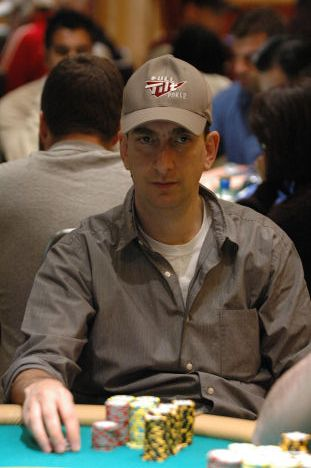 Erik Seidel at the 2006 World Poker Tour Five Diamond